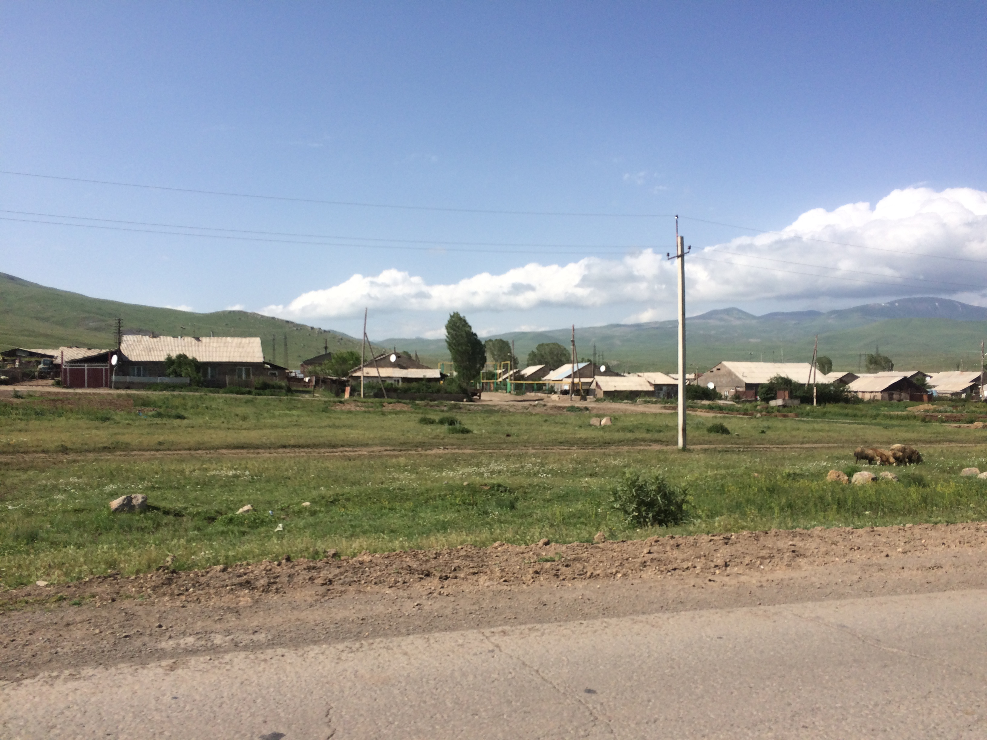 Village of Gorayk from the highway.